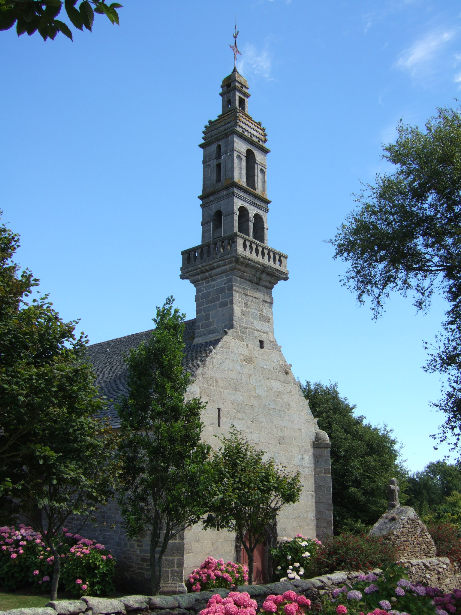 Notre-Dame-de-Kersaint in Kersaint-Landunvez, Finistère, France.